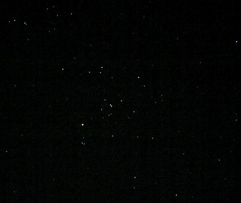 Hyades Open Cluster, taken with Canon EOS Digital Rebel XTi, 20 frames @2sec each, F/5.6, 55mm focal length, ISO-400, taken December 20, 2006 at 7:36pm EST by Todd Vance.